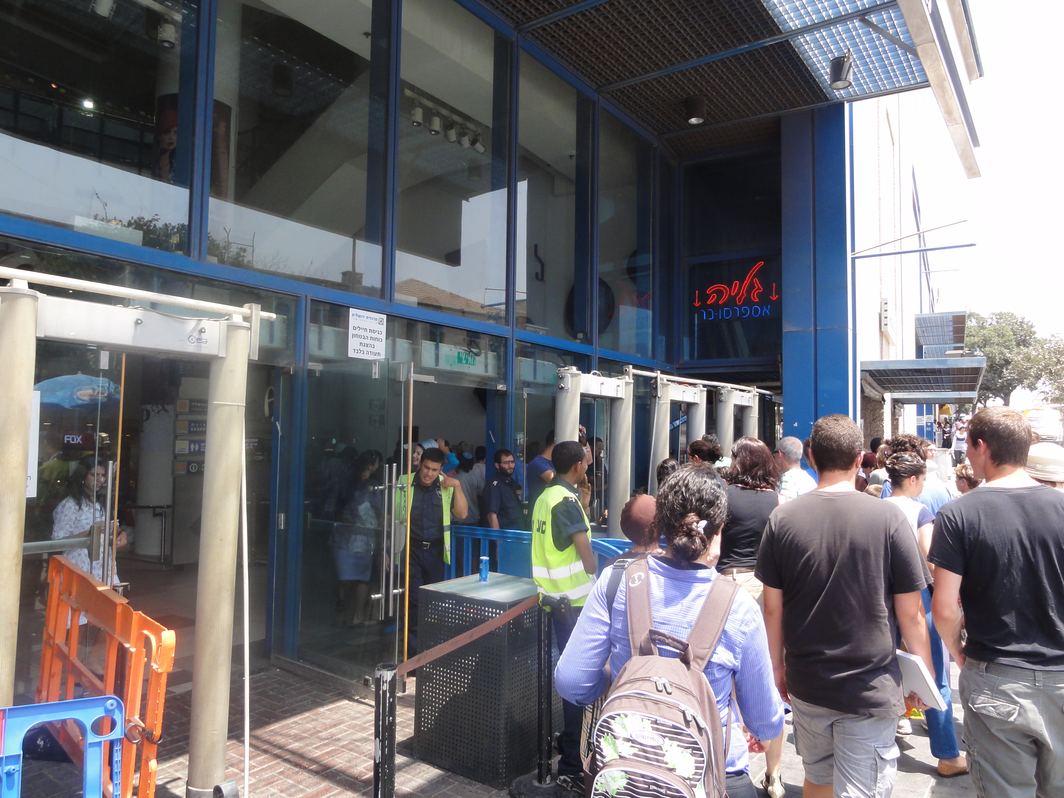 Central Bus station